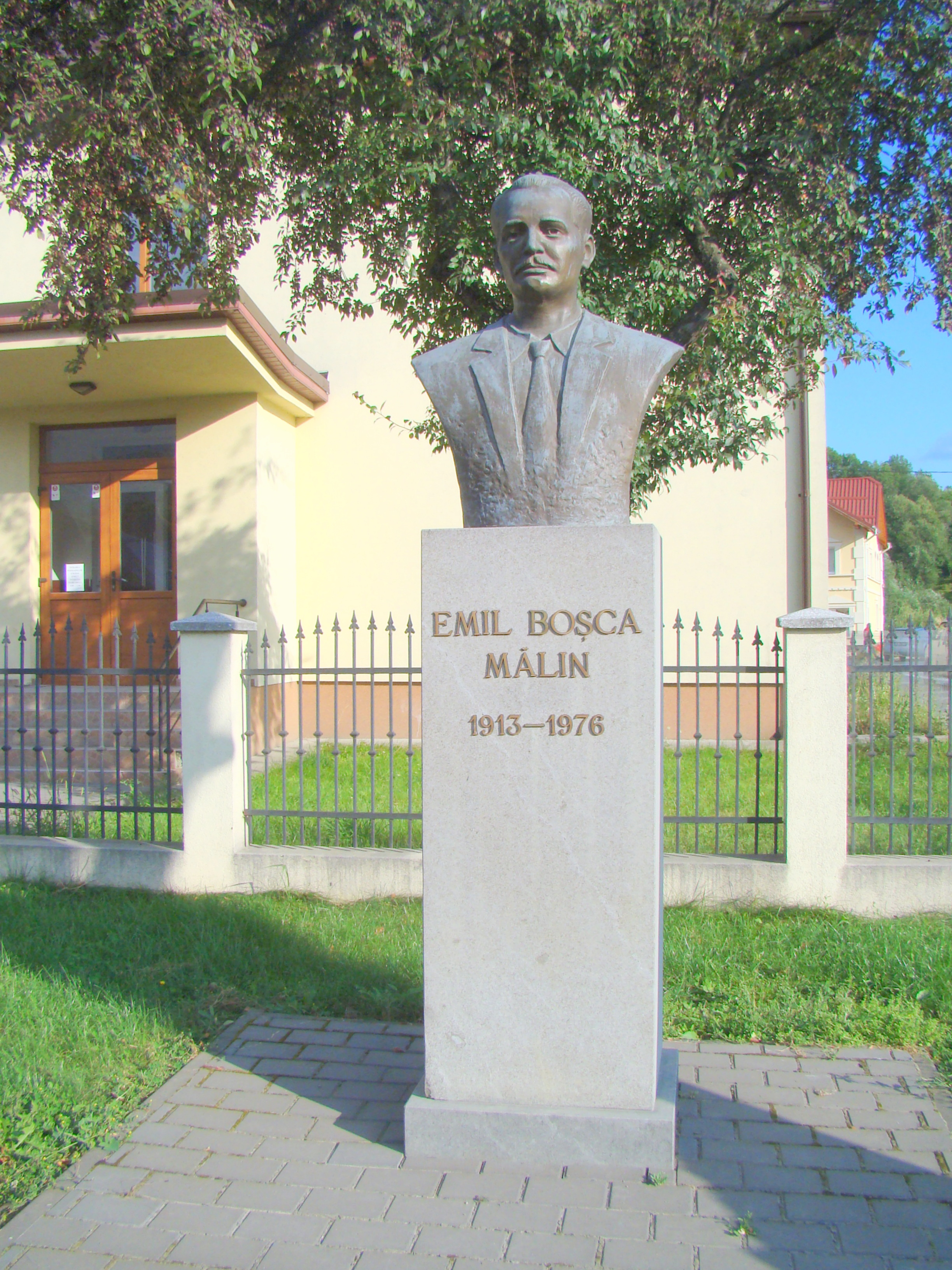 Maieru, Bistrița-Năsăud county, Romania